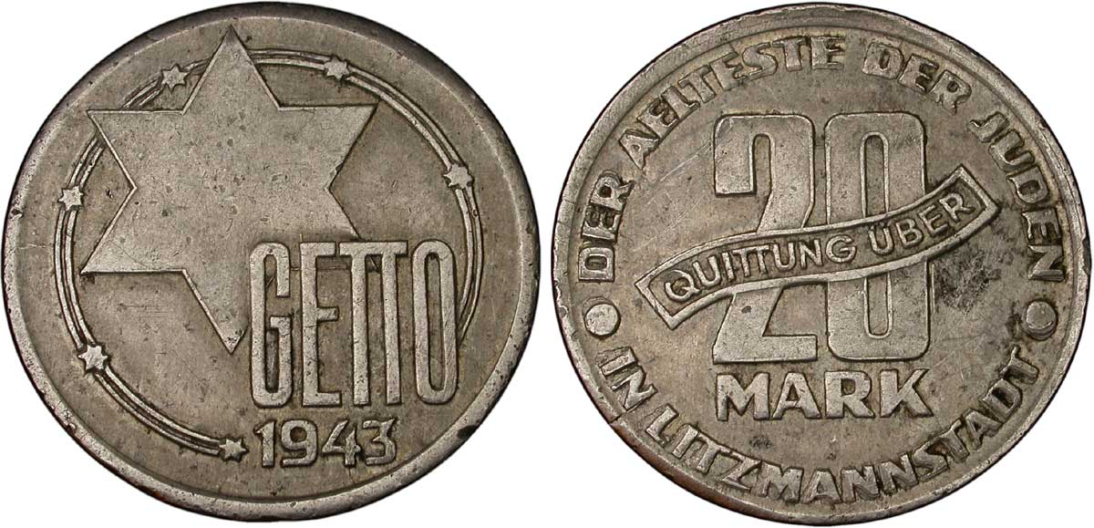 Pologne, 20 Mark du Ghetto de Lodz, 1943